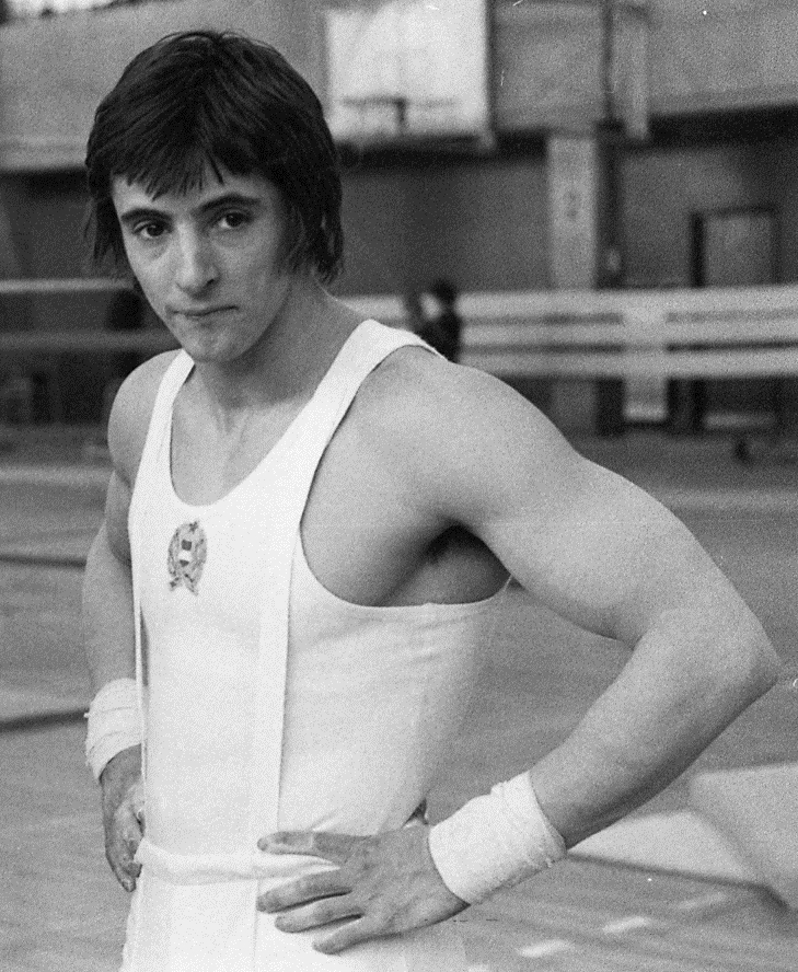 Zoltán Magyar was the premier pommel horse gymnast in the world in the 1970s.